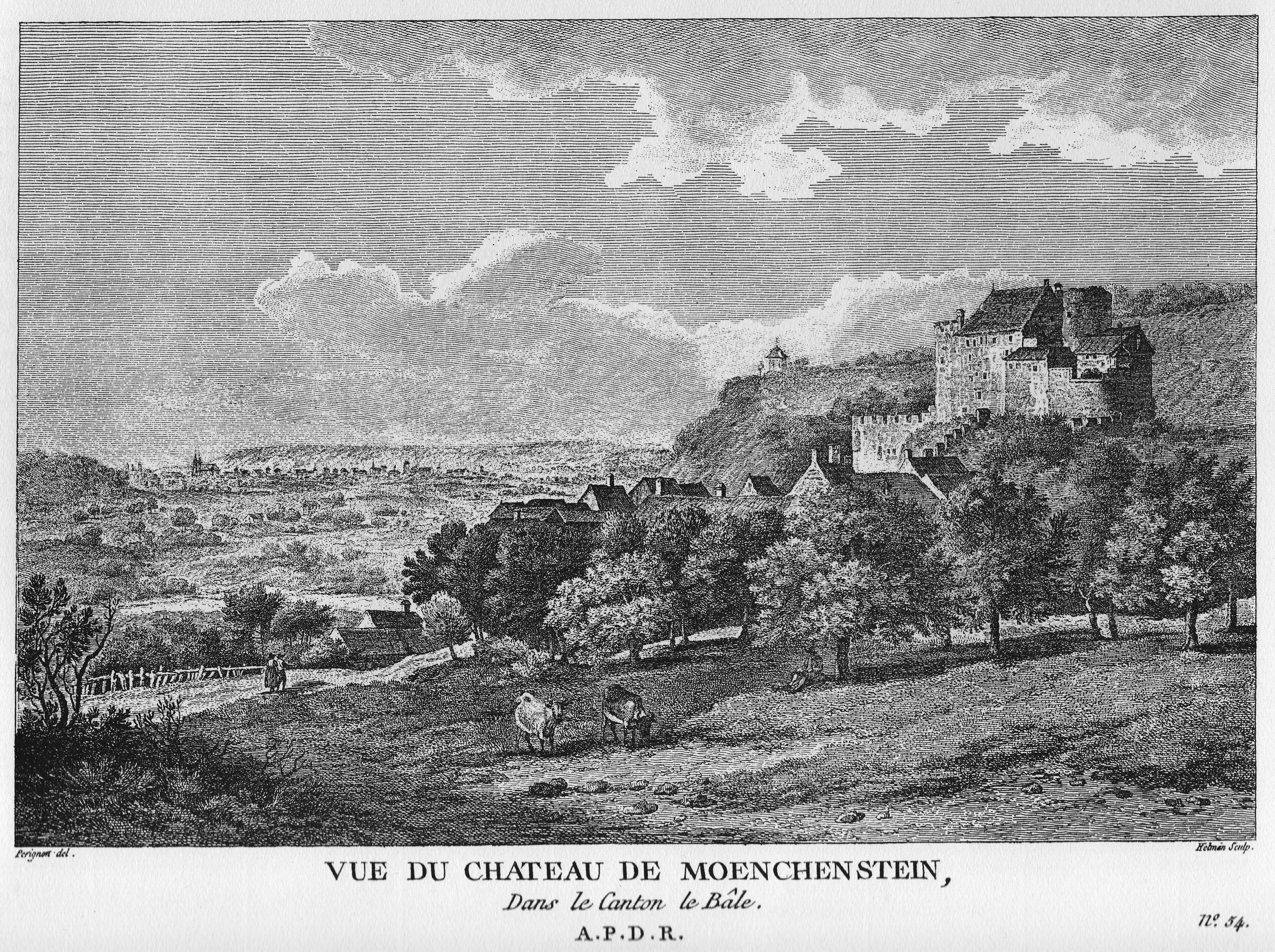 View of the Caſtle of Mœnchenſtein in the Canton of Basle. Copper Engraving by Iſidore-Staniſlas-Henri Helman after a Drawing by Nicolas Pérignon.